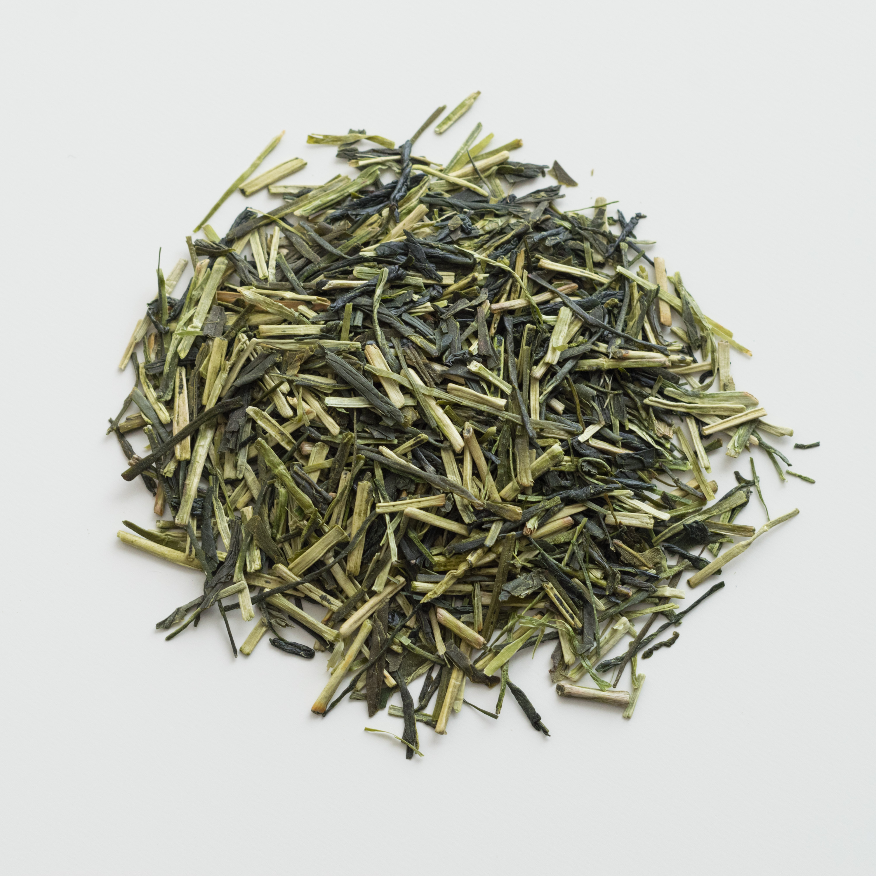 Kukicha green tea grown in Kagoshima, Japan.